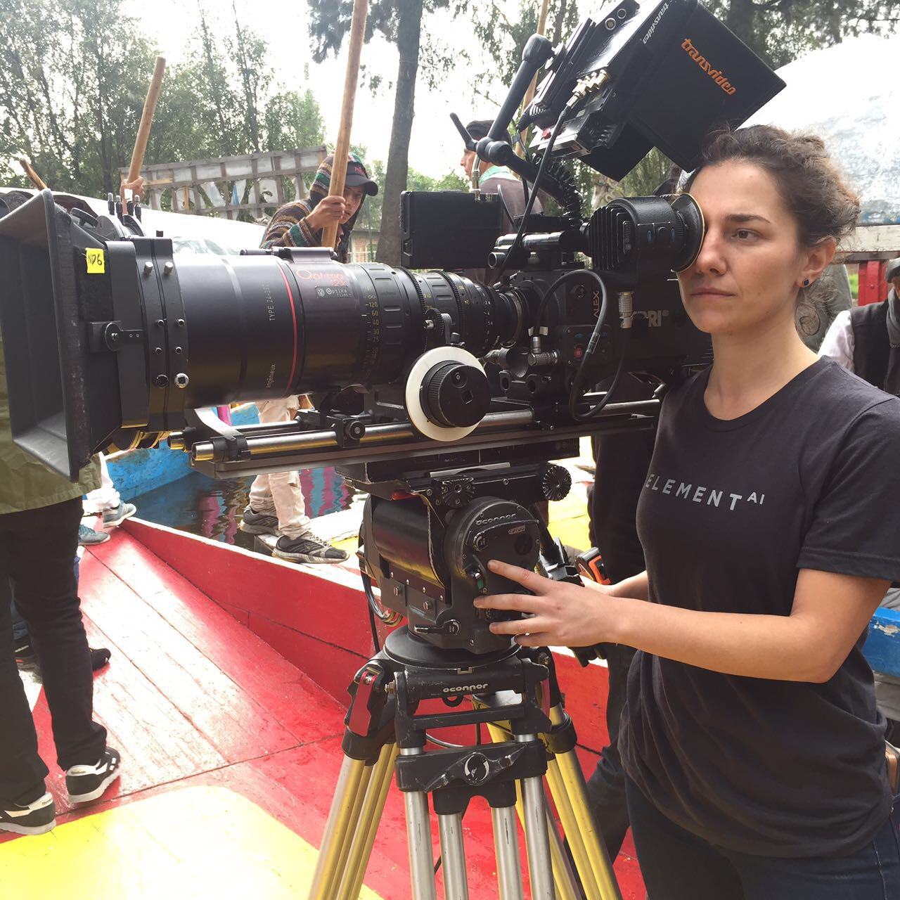 Gabriela working as Director of Photography on the set of a commercial. 27th July 2017